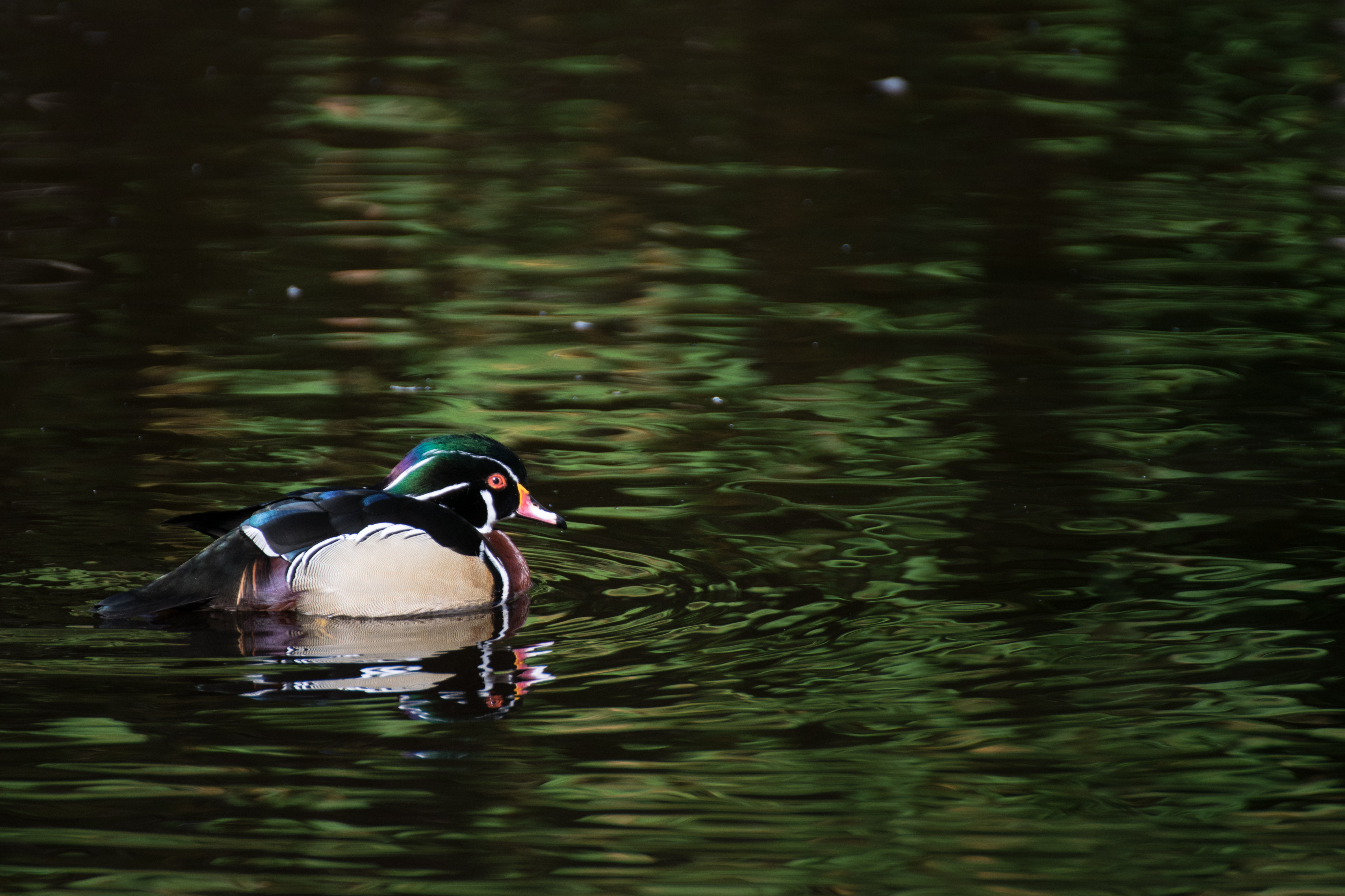 A Wood duck at the Wild Zoo of St-Félicien (Quebec, Canada).